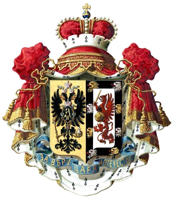 Coat of Arms of Yuryevsky family